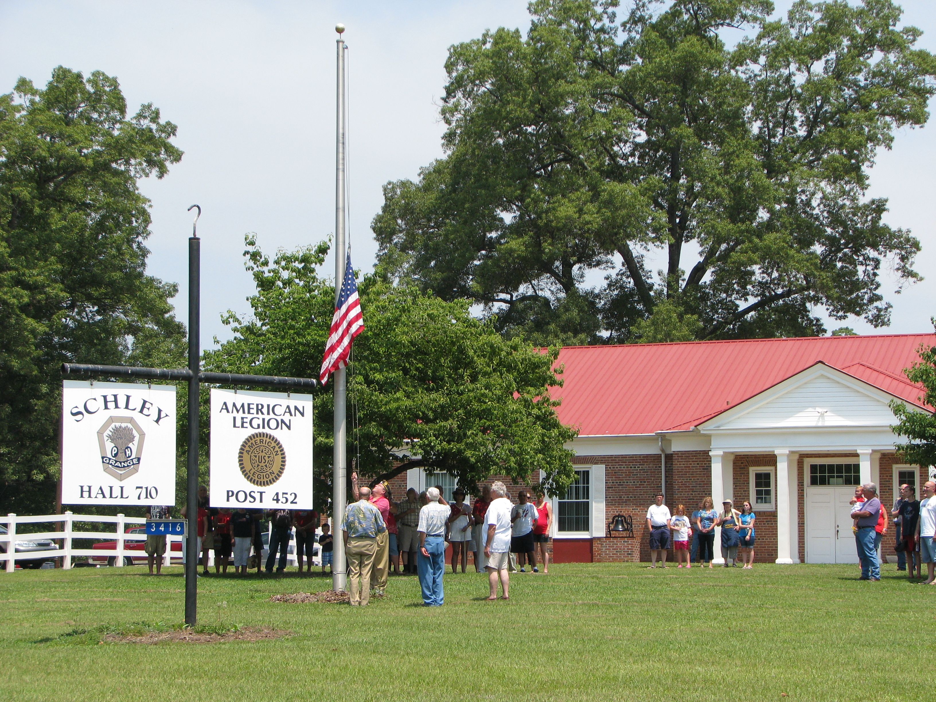 Schley Grange Hall - American Legion members raising the flag on the 4th of July, 2011.